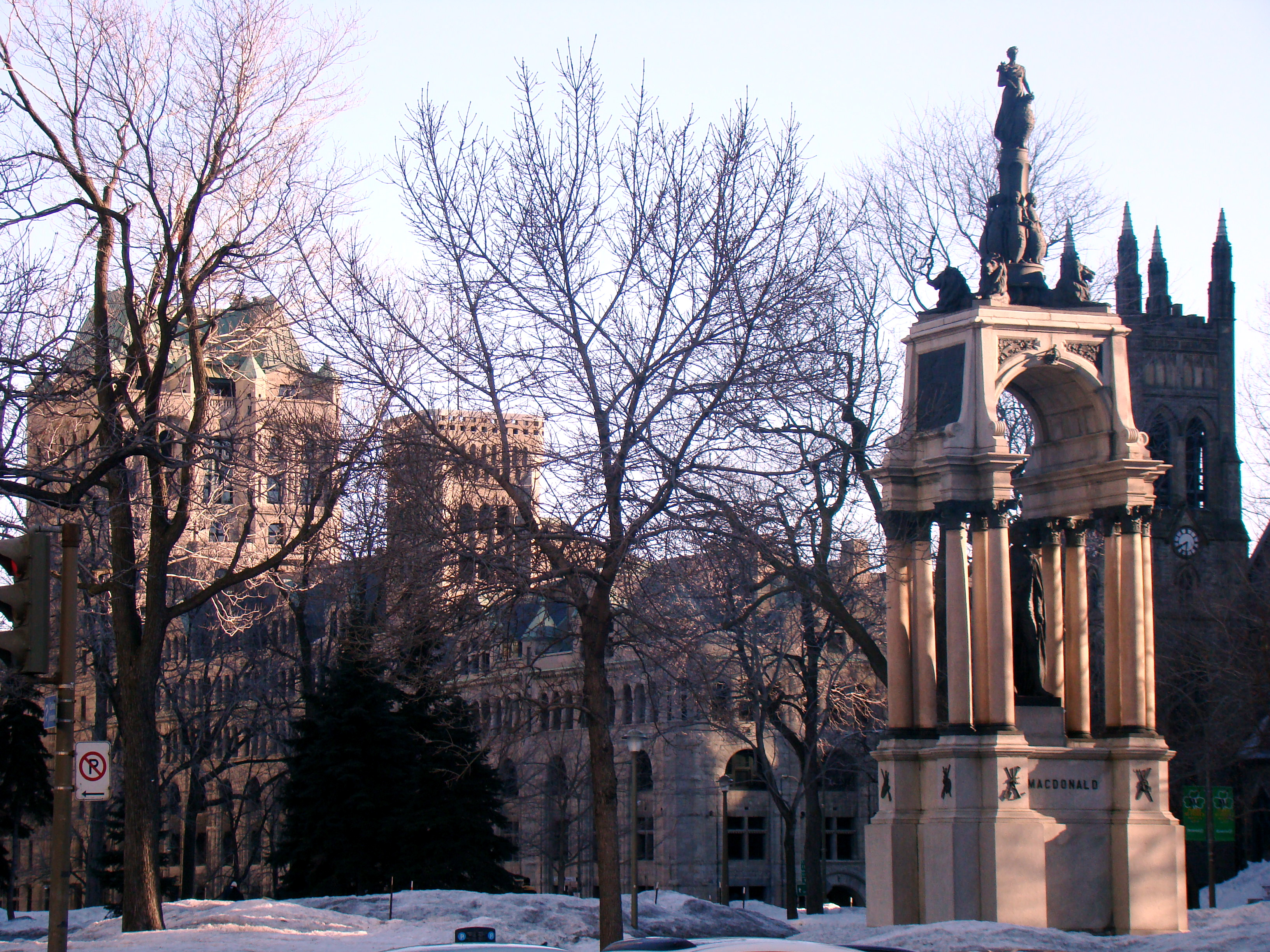 View of Place du Canada in Montreal from north